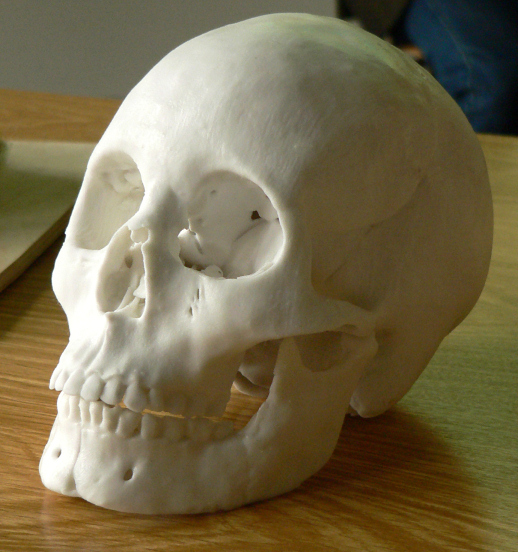 Digital fabricated 3-D skull reconstruction of the bog body Girl of the Uchter Moor presented at a press conference in January 2011 at Niedersächsisches Landesamt für Denkmalpflege